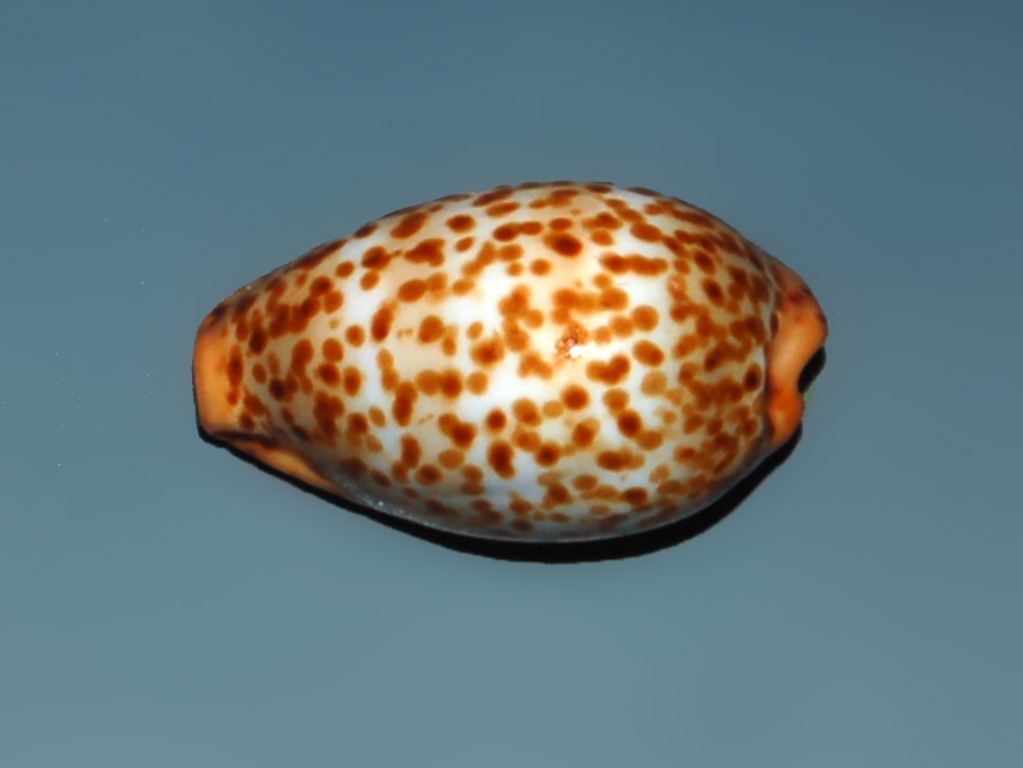 Palmadusta humphreyii - Solomon Islands